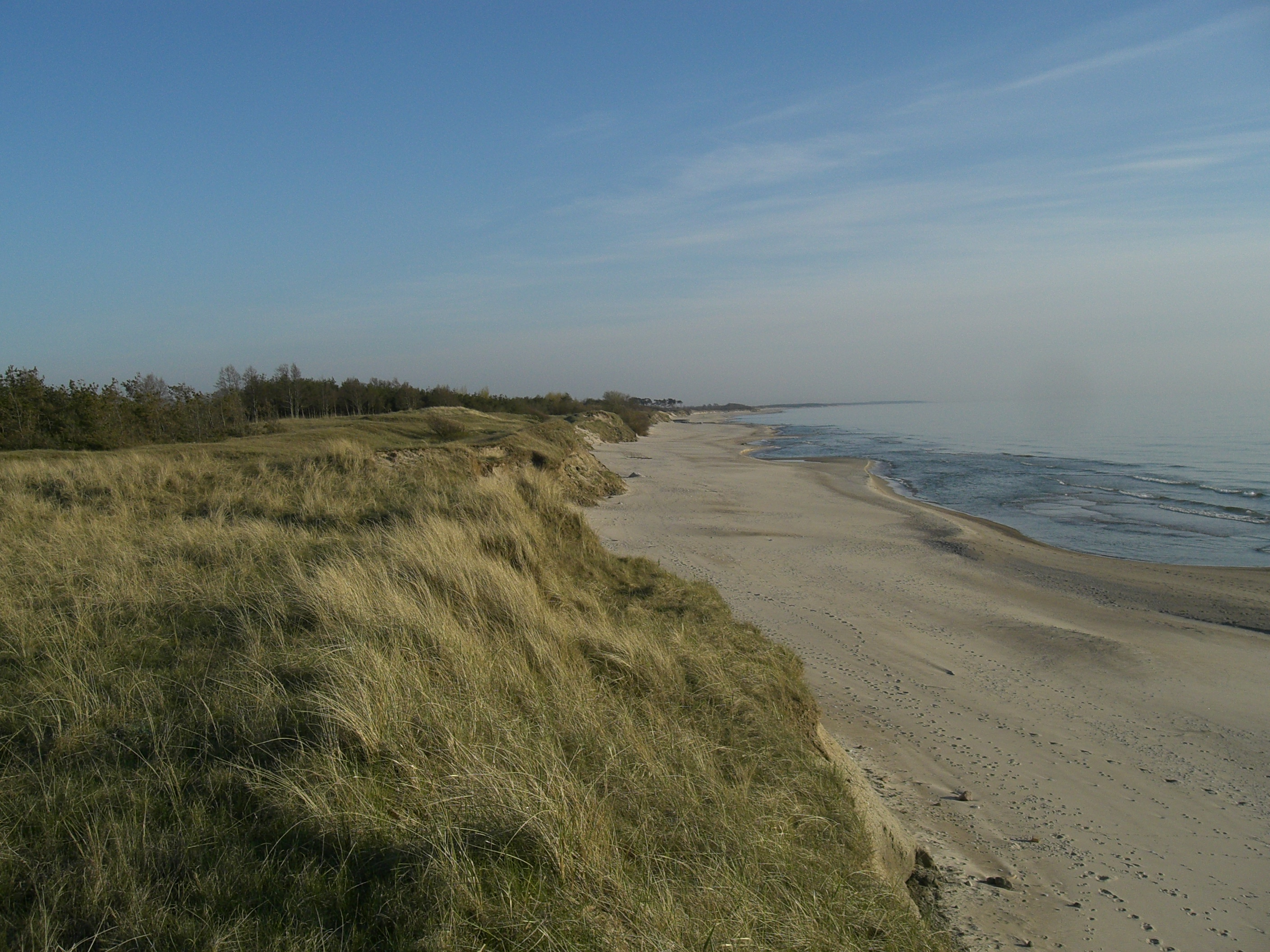 Seascape of Baltic sea in north direction from Liepāja town, Latvia.